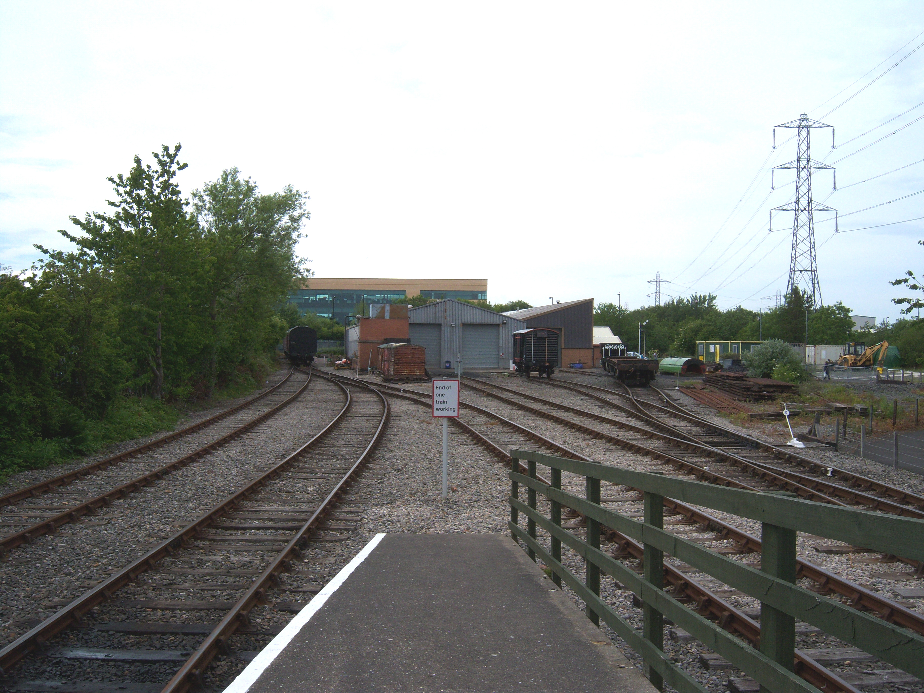 The view north from the Middle Engine Lane platform on the North Tyneside Steam Railway, toward the workshop/shed and railway museum building.